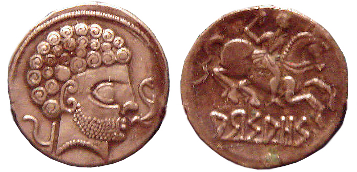 Coins_of_Arsaos_in_Navarre Spain_150BCE_100BCE_Roman_stylistic_influence